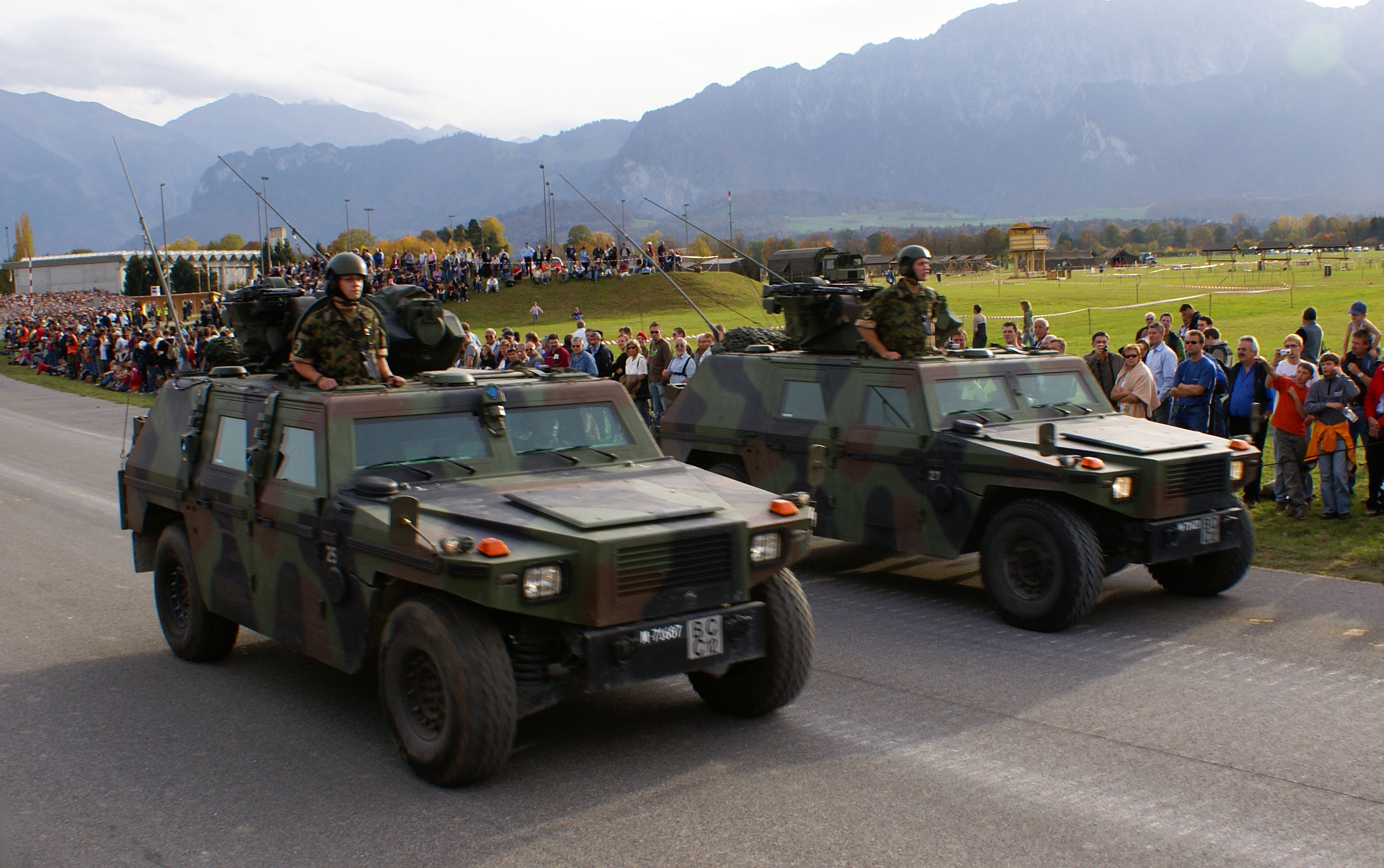 Swiss Army. MOWAG Eagle II light armored reconnaissance vehicle. Participating in the "Steel Parade" of the 2006 Army Days, Thun.